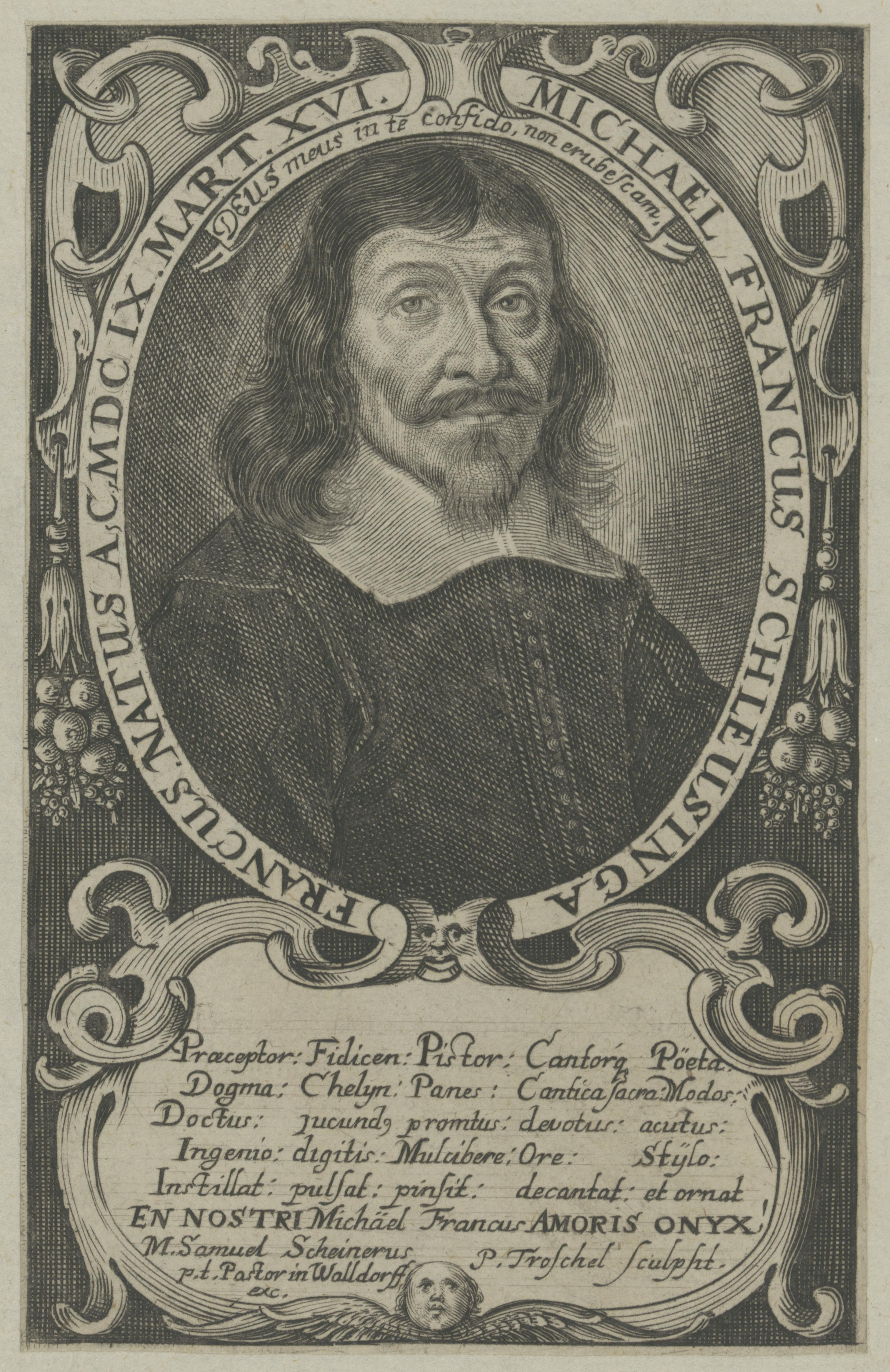 Depicted person: Michael Franck